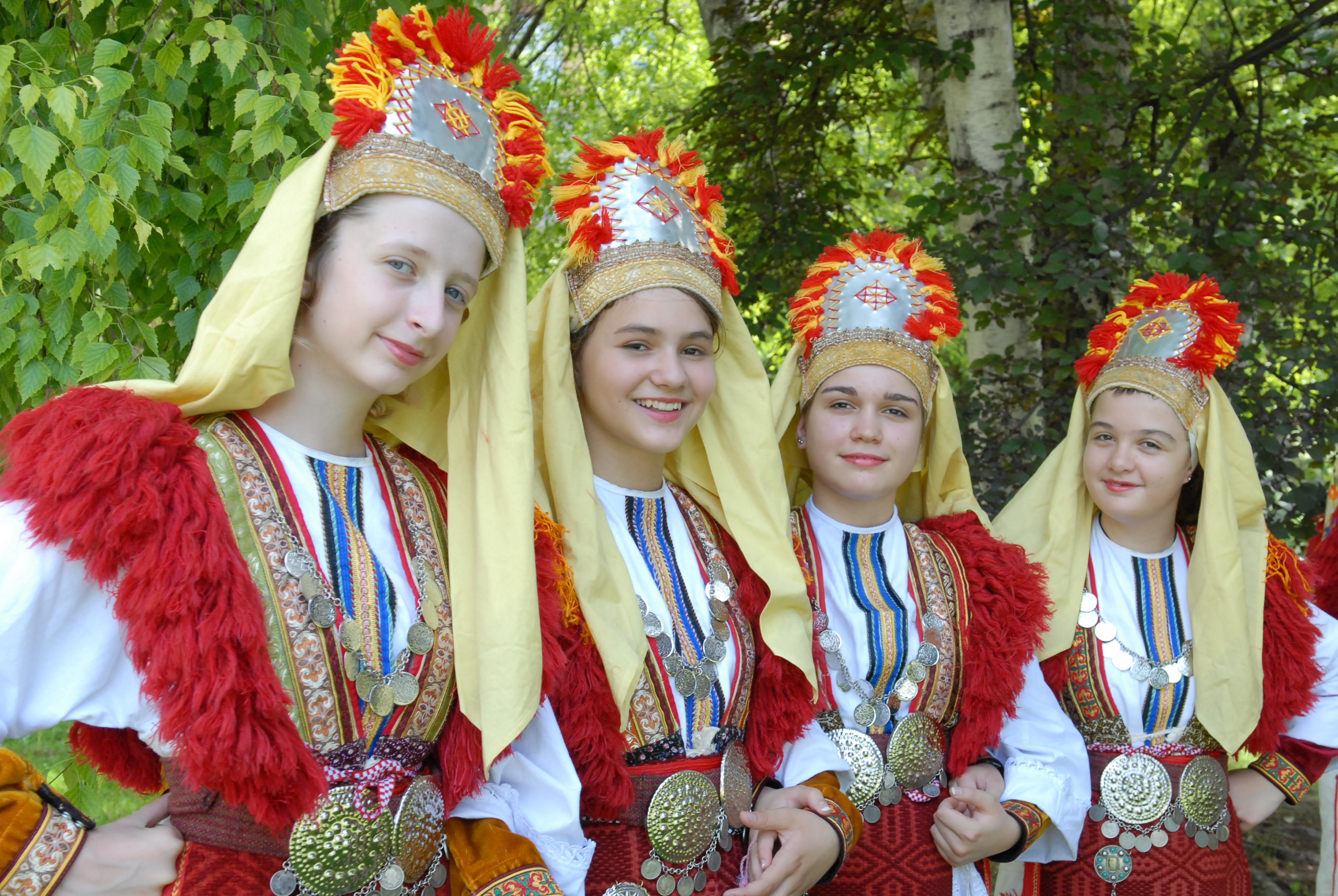 Girls wearing national costumes from Mariovo